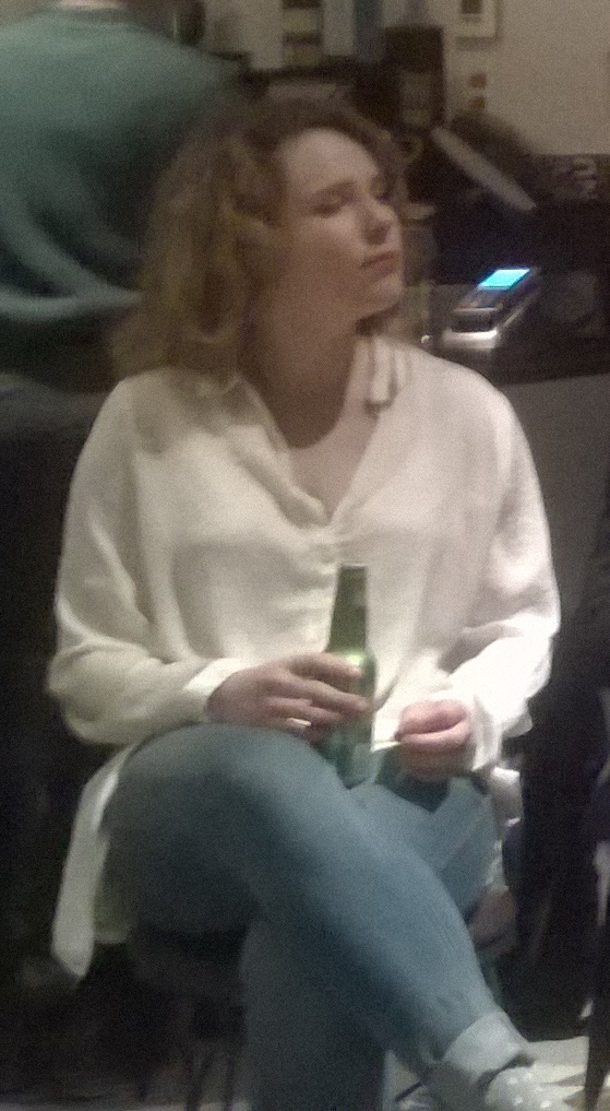 Charlotte Aubin photographed in Montréal , Québec , Canada at the Quat'Sous Theatre.